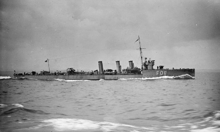 Photograph of British Admiralty M class destroyer HMS Oracle.